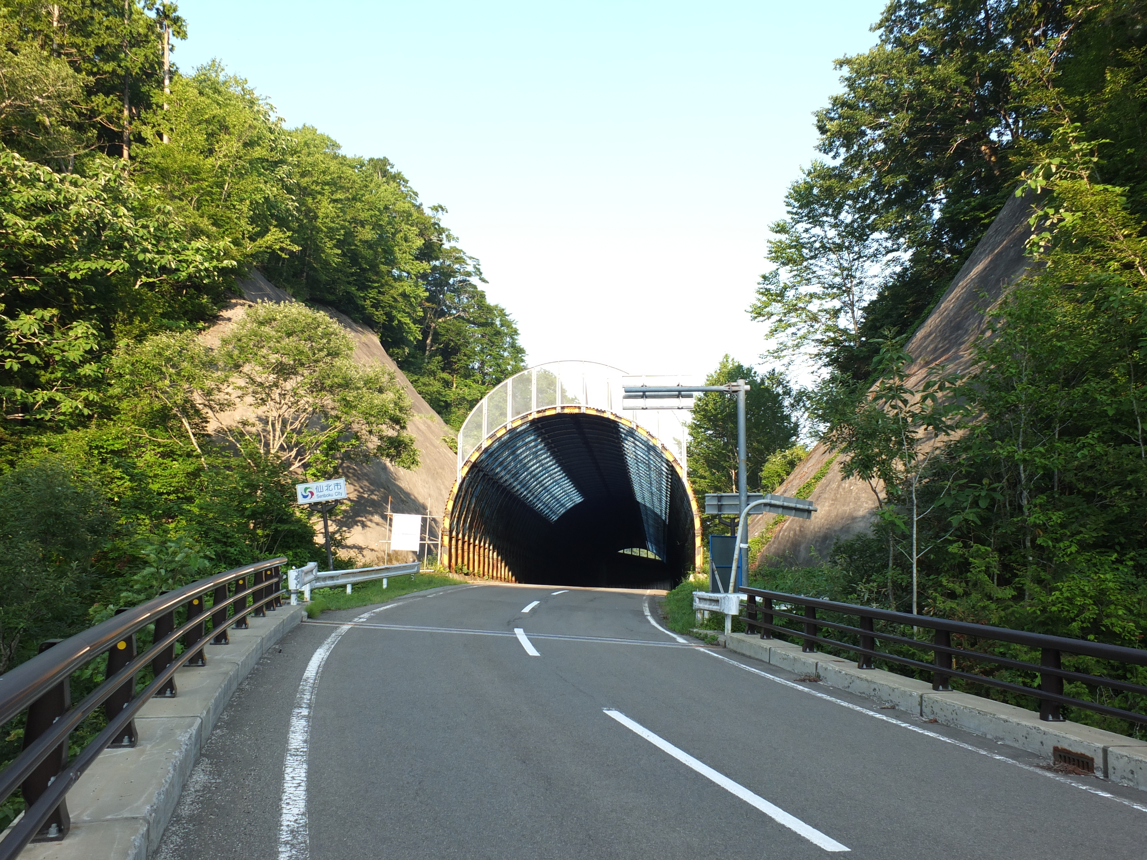 Daikakuno-touge (mountain pass), on Route #105, between Kita-akita city and Senboku city, Akita prefecture, Japan.